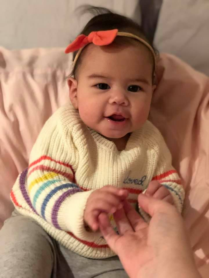 baby girl with bow